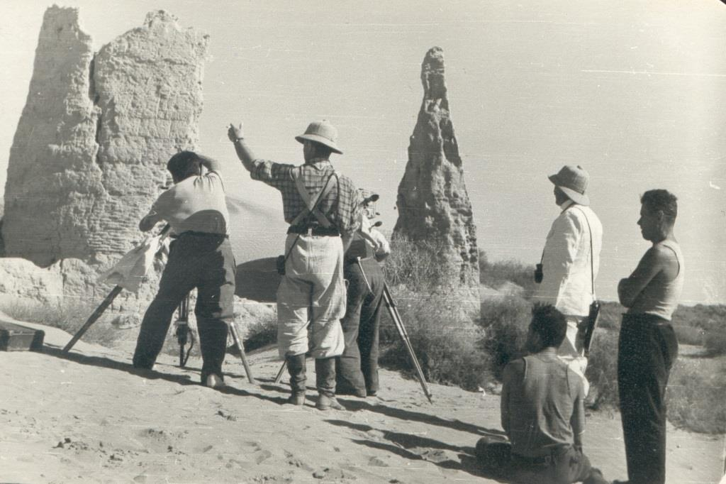 A team of the Chorasmian (Khorezmian) Expedition of the Academy of Sciences of the USSR at work in the desert of Central Asia, surveying an archaeological monument in 1950